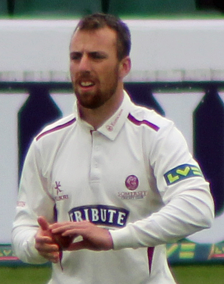 Jack Leach, playing for Somerset against Warwickshire in the 2013 County Championship.